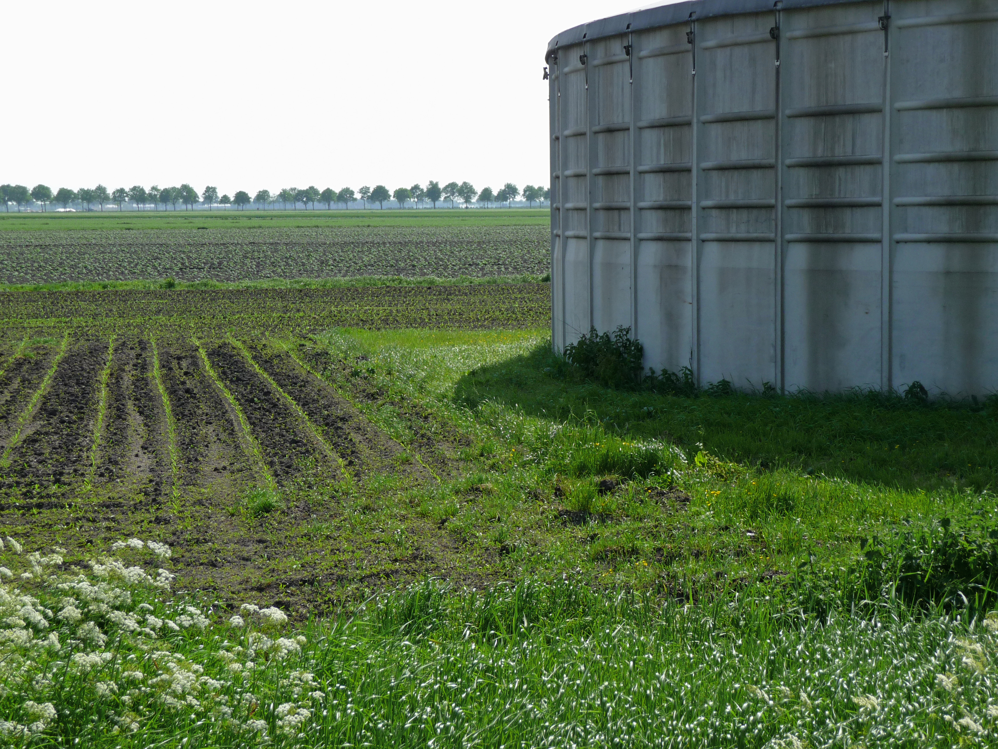 Picture of a huge A manure storage silo in the fields near Smilde, in the farm area Laaghalerveen - Netherlands, spring 2012. These huge manure silos, of concrete or metallic, are a usual part of the landscapes in Drenthe. On the horizon to the right is the village Smilde.